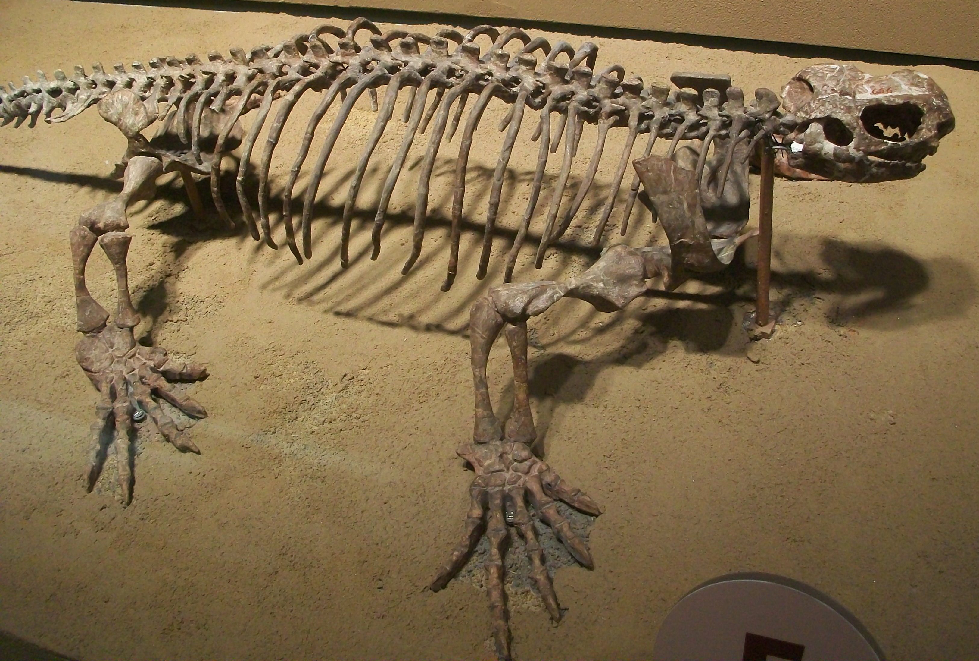 Skeleton of Casea broilii in the Field Museum of Natural History.